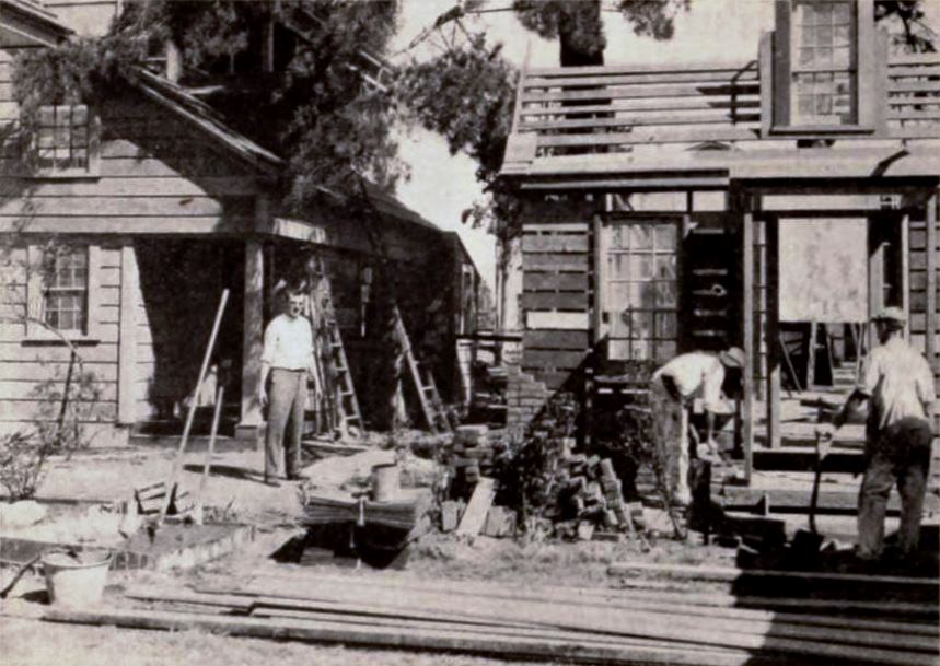 Set under construction for the American film Partners of the Tide (1921), on page 80 of the November 13, 1920 Exhibitors Herald.